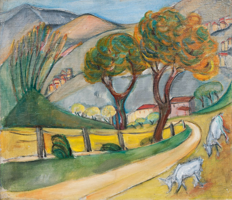 Alma del Banco (Hamburg 1863 - Hamburg 1943) Mountainous Landscape with Goats Around 1932, oil on canvas